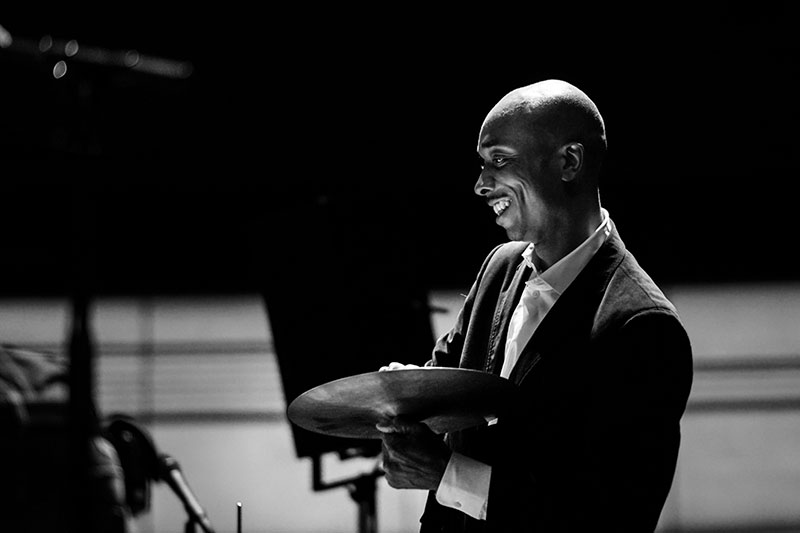 Eric Mcpherson at Reykjavik Jazz Festival 2017